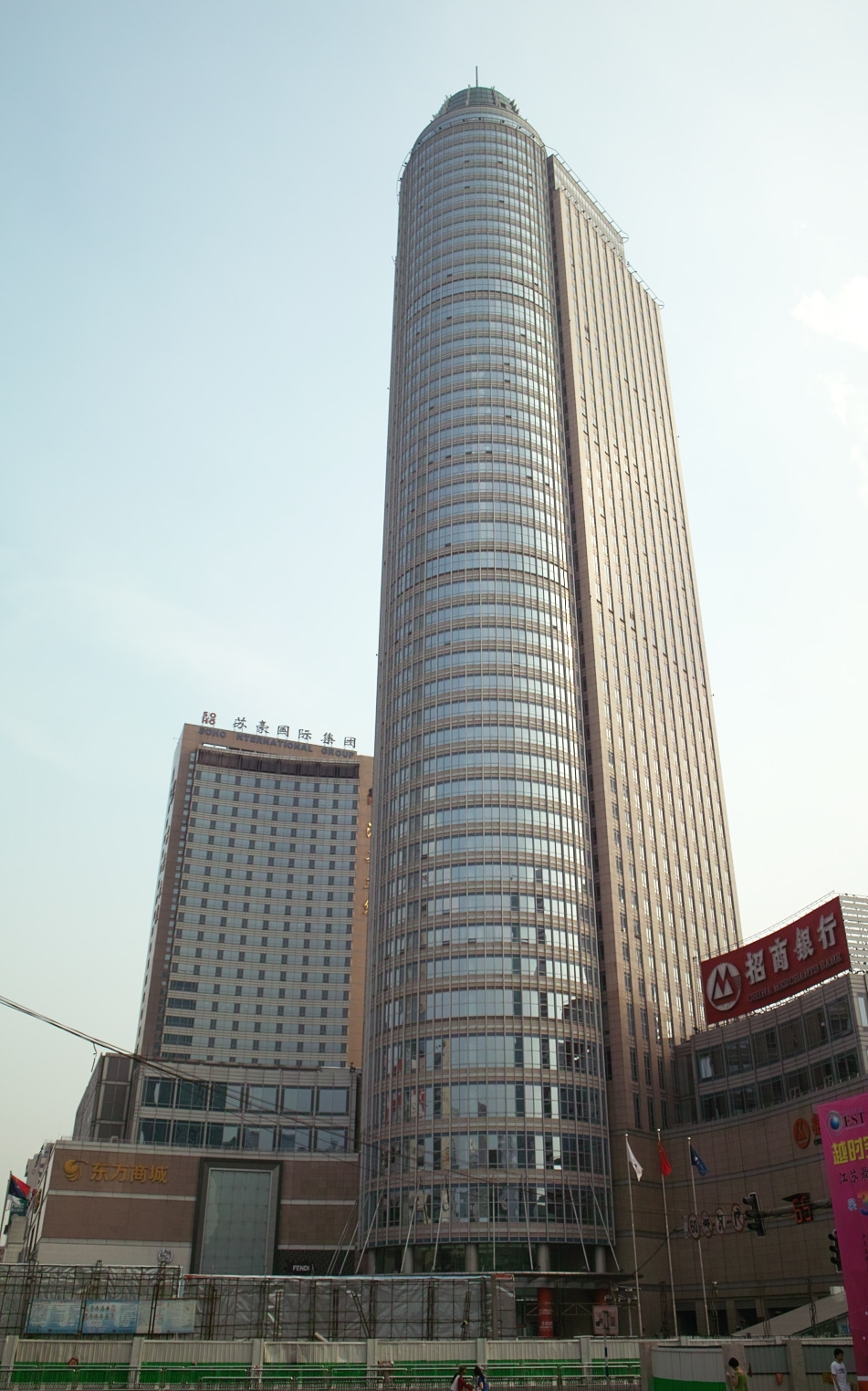 Zhaoshang building,nanjing